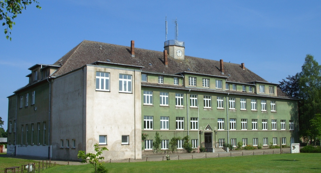 1927 builded Goethe-Gymnasium in Neustadt-Glewe, Mecklenburg-Vorpommern, Germany